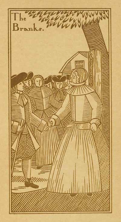 An illustration of a brank or scold's bridle, a historical punishment for the common scold.